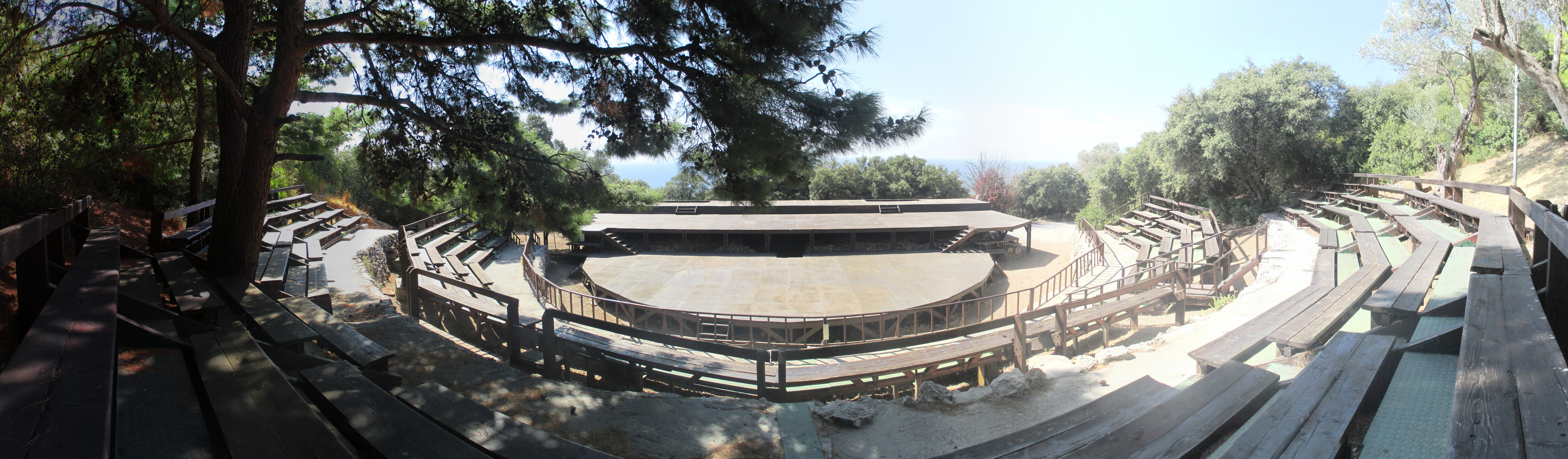 Ancient theatre of Pythagoreio (ancient polis of Samos). Mostly covered with modern wooden theatre structures.